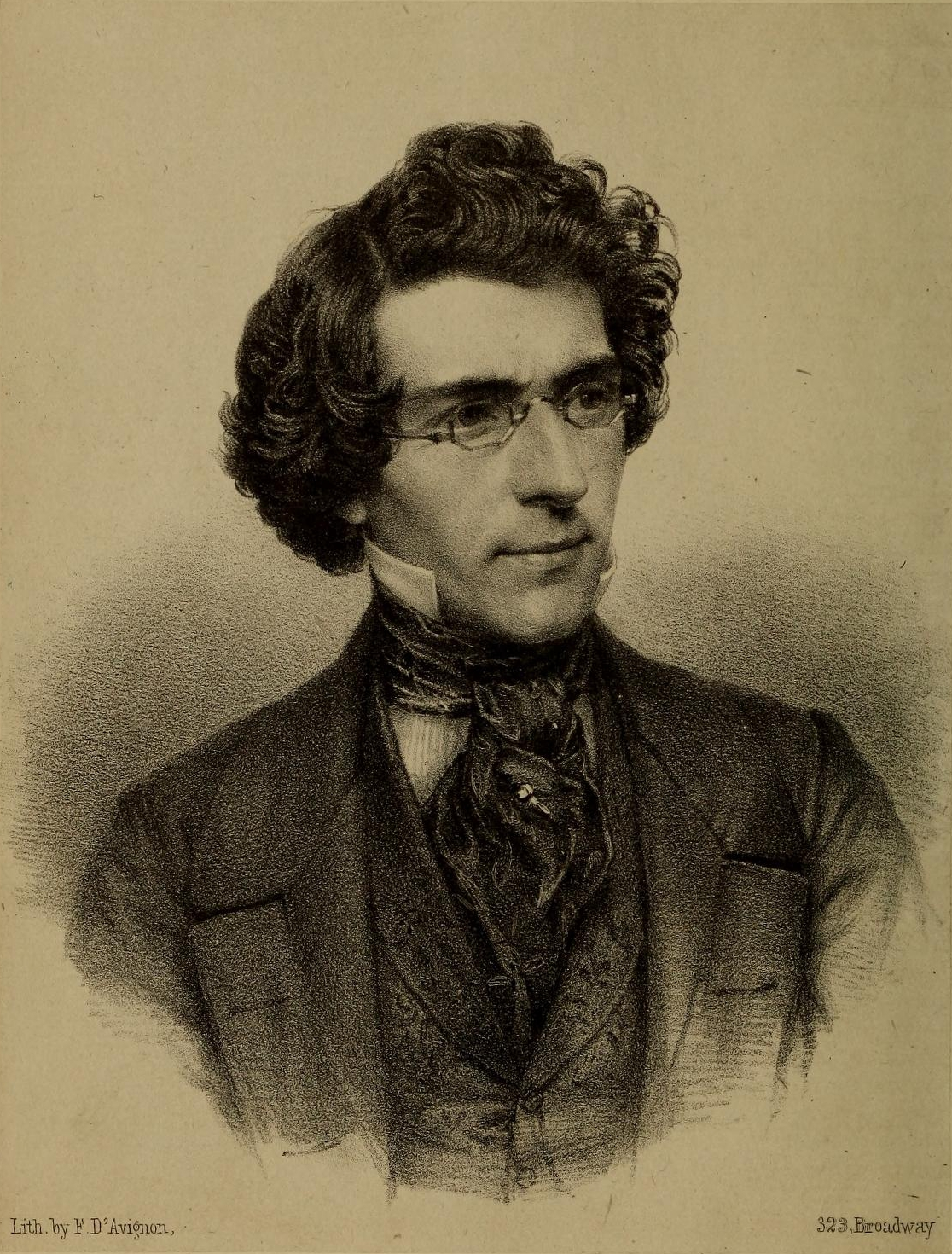 American photographer Mathew B. Brady, lithograph reproduced from an original daguerreotype in 1845-46.[1] ↑ Meredith, Roy (1974) Mr. Lincoln's Camera Man, Mathew B. Brady, Courier Corporation, p. 22 ISBN: 978-0-486-23021-4.